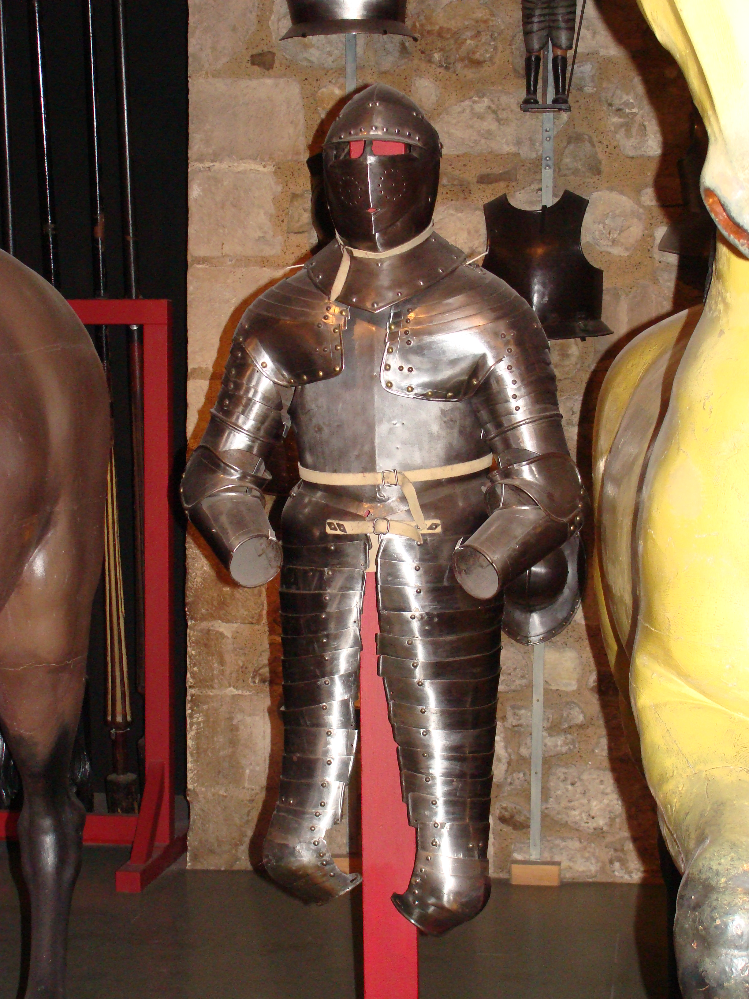 Armours in the Tower of London